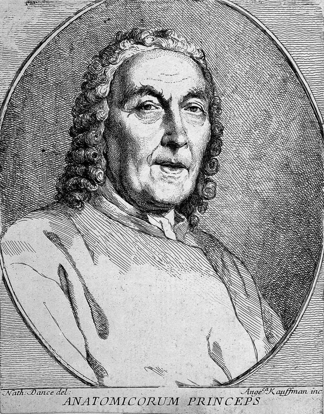 Portrait of Giovanni Battista Morgagni [1682 - 1771], Italian anatomist Iconographic Collections Keywords: burgess, portraits 2066.7; morgagni, giovanni battista (1; Portraits; Nathaniel Dance-Holland; Angelica Kauffmann